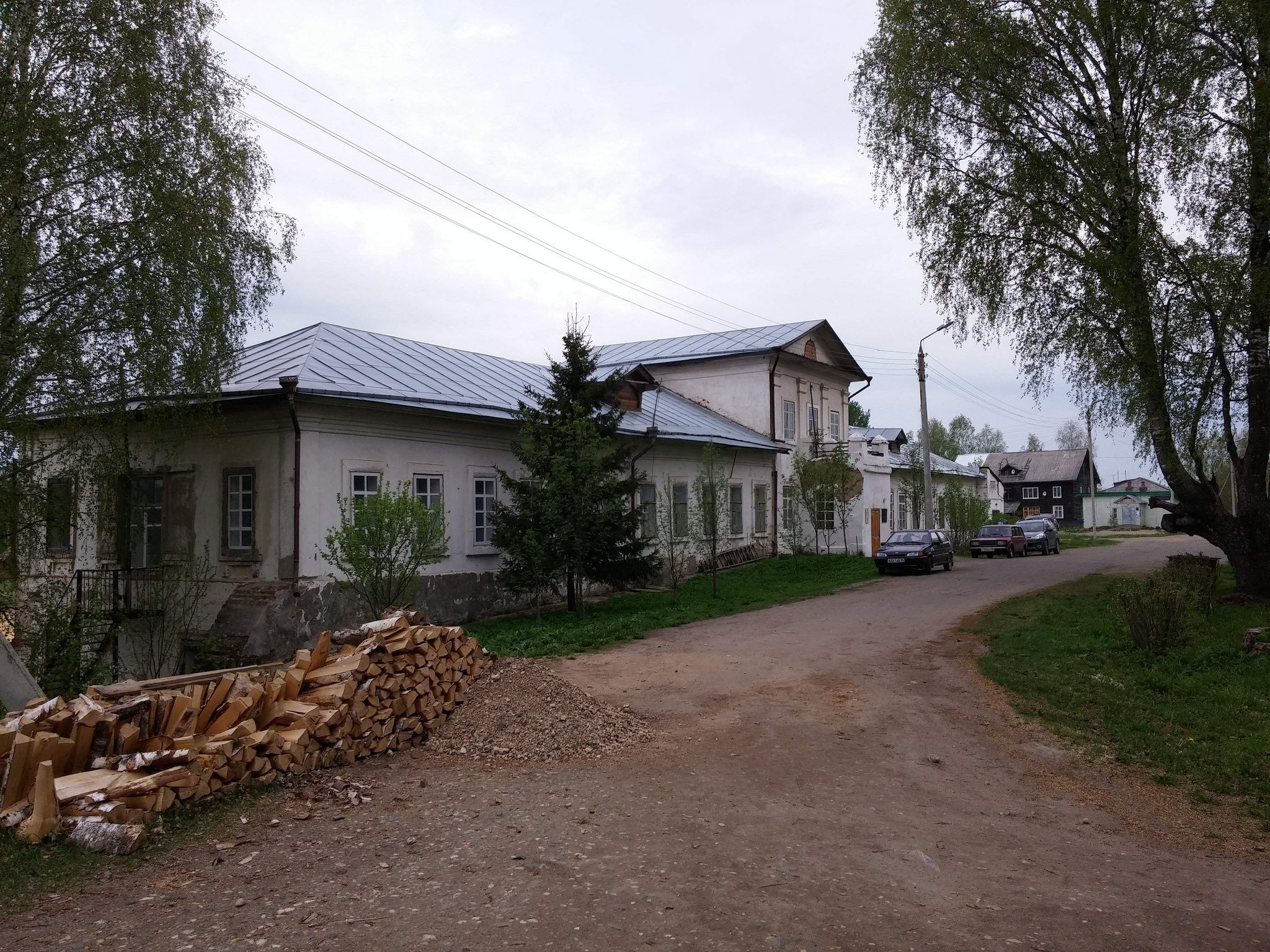 Hotel "Monastic cells" in Totma